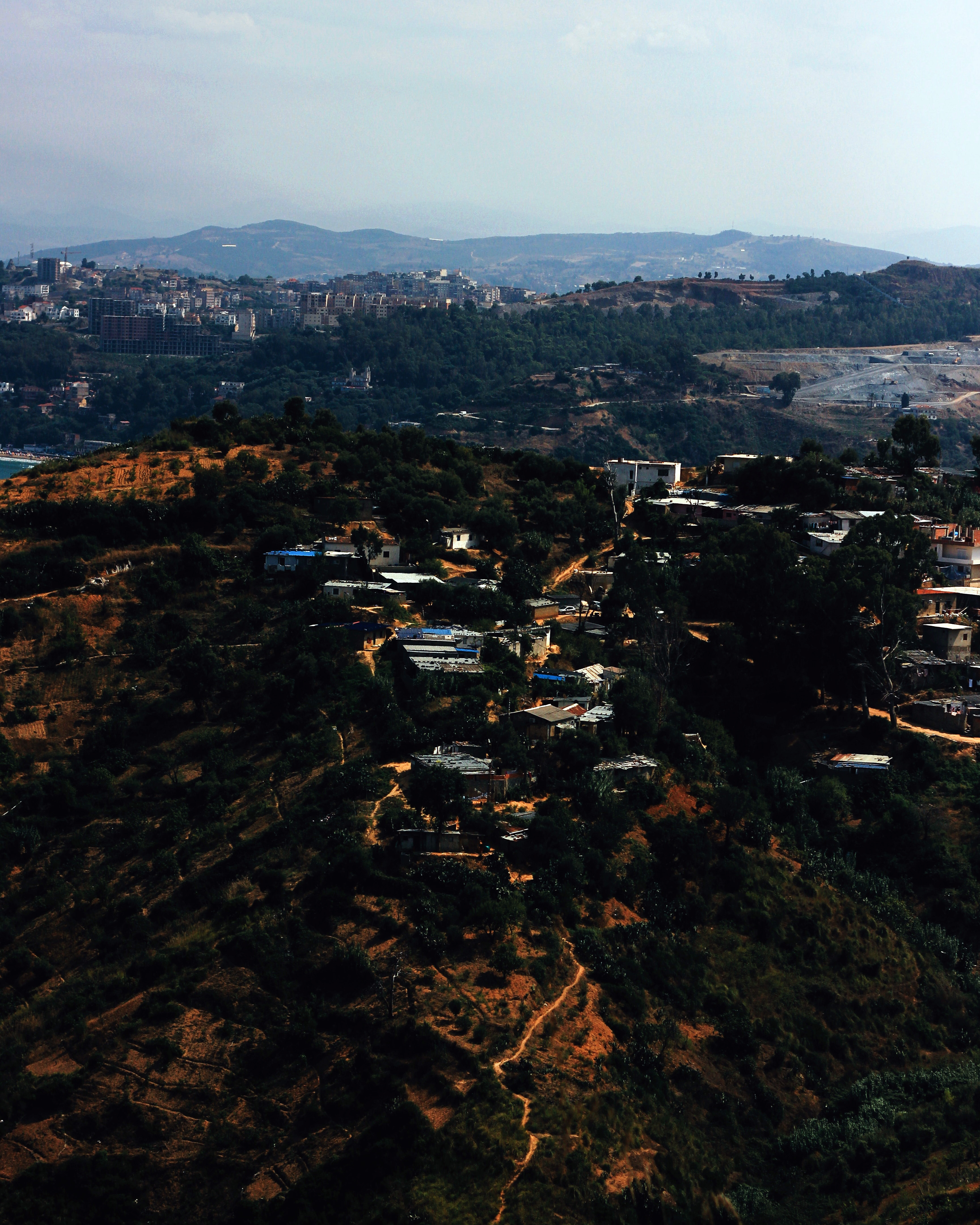 This is an image with the theme "Play" from: Algeria